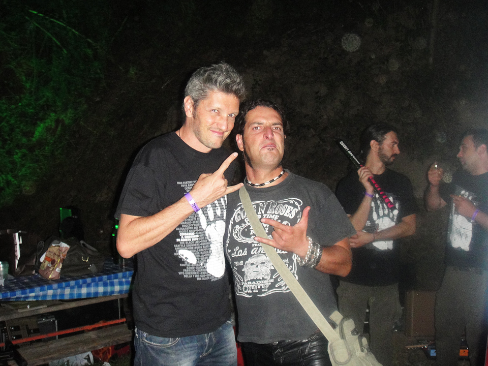 Omar Fantini and Ivan Martorelli to the annual Festival ceroanKio of Asti - August, 28 2010